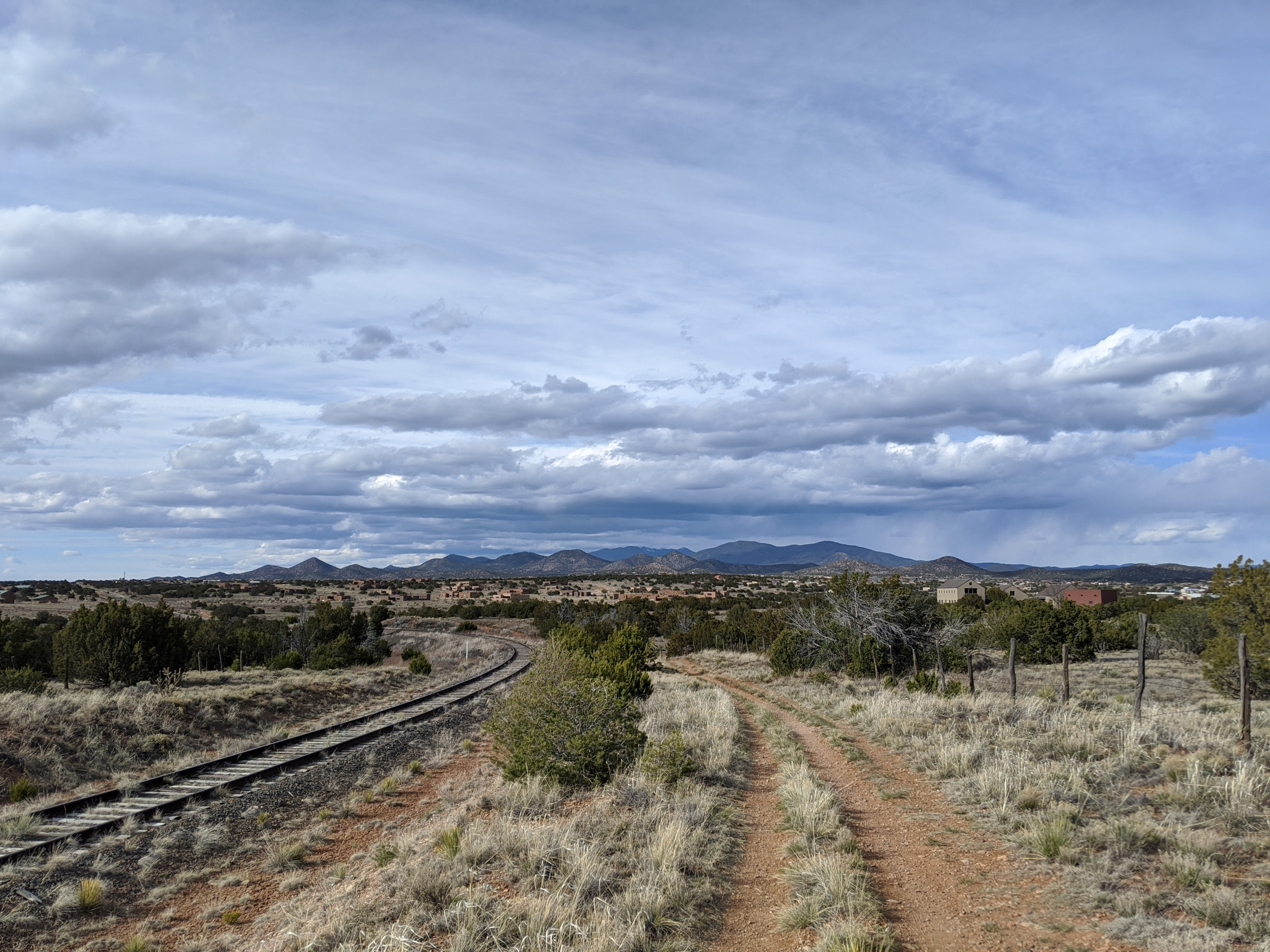 sangre de cristo mountains from santa fe rail trail